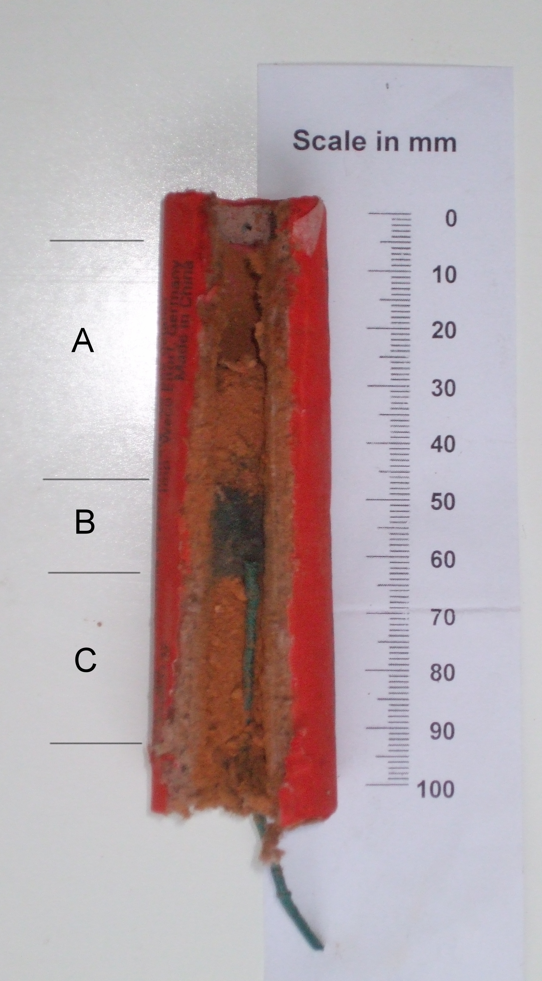 cutt thru a firecracker